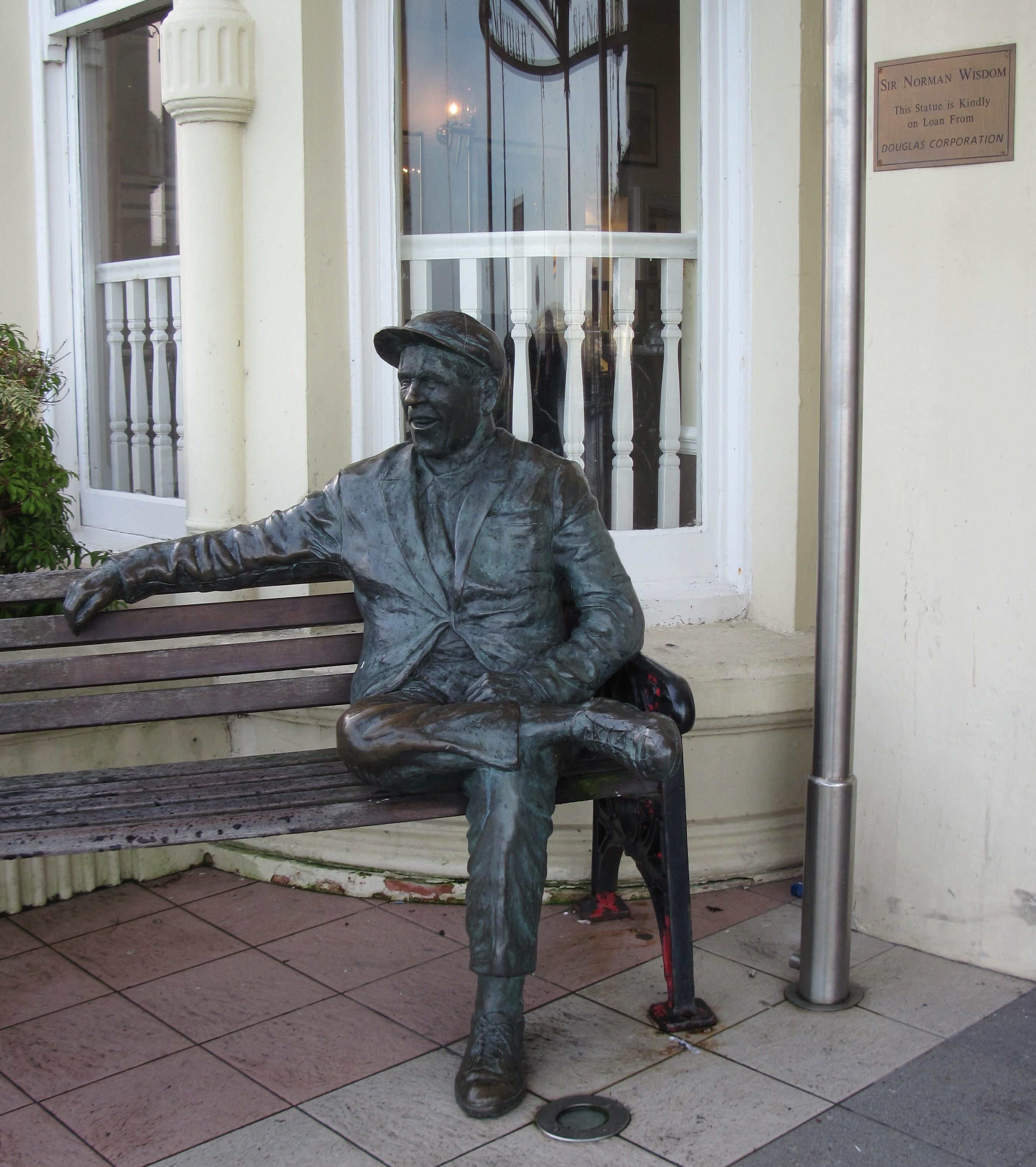 Douglas, 2013